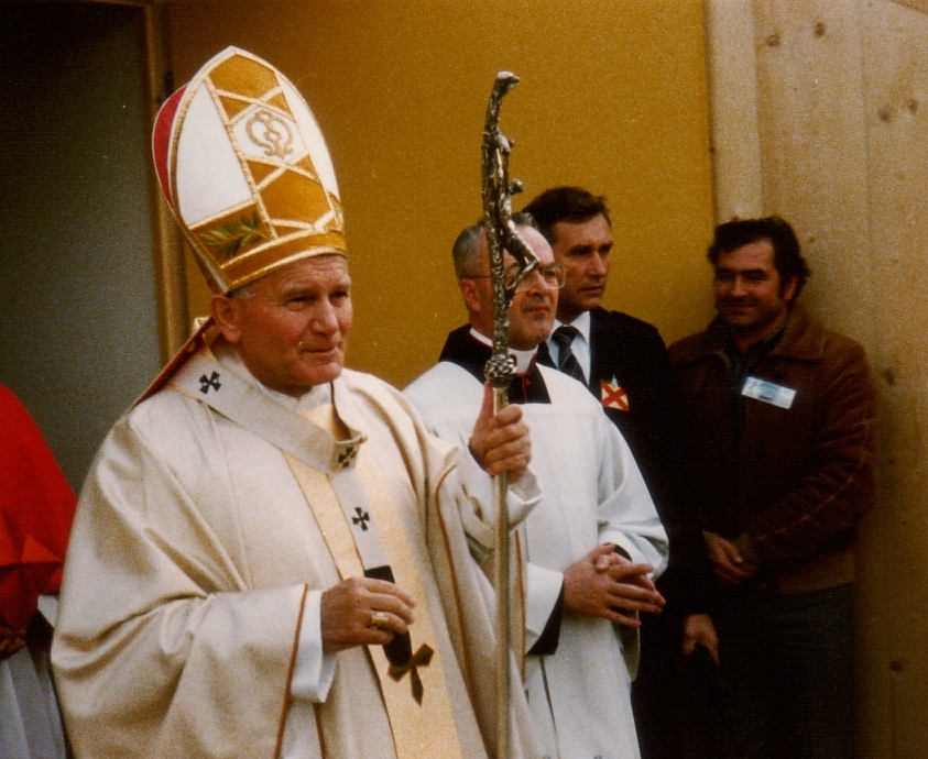 Pope John Paul II. in Munich 1980